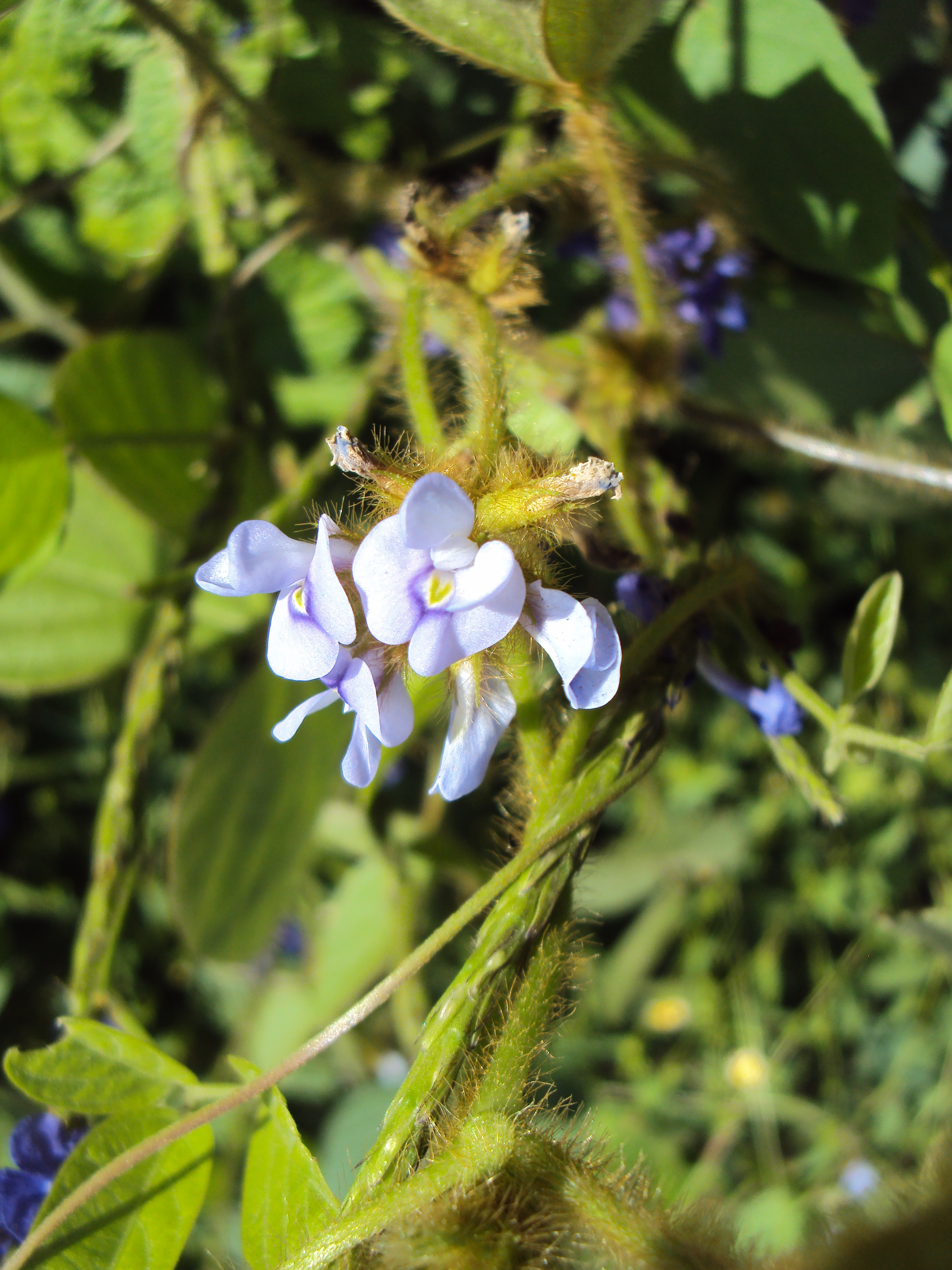 Calopogonium mucunoides